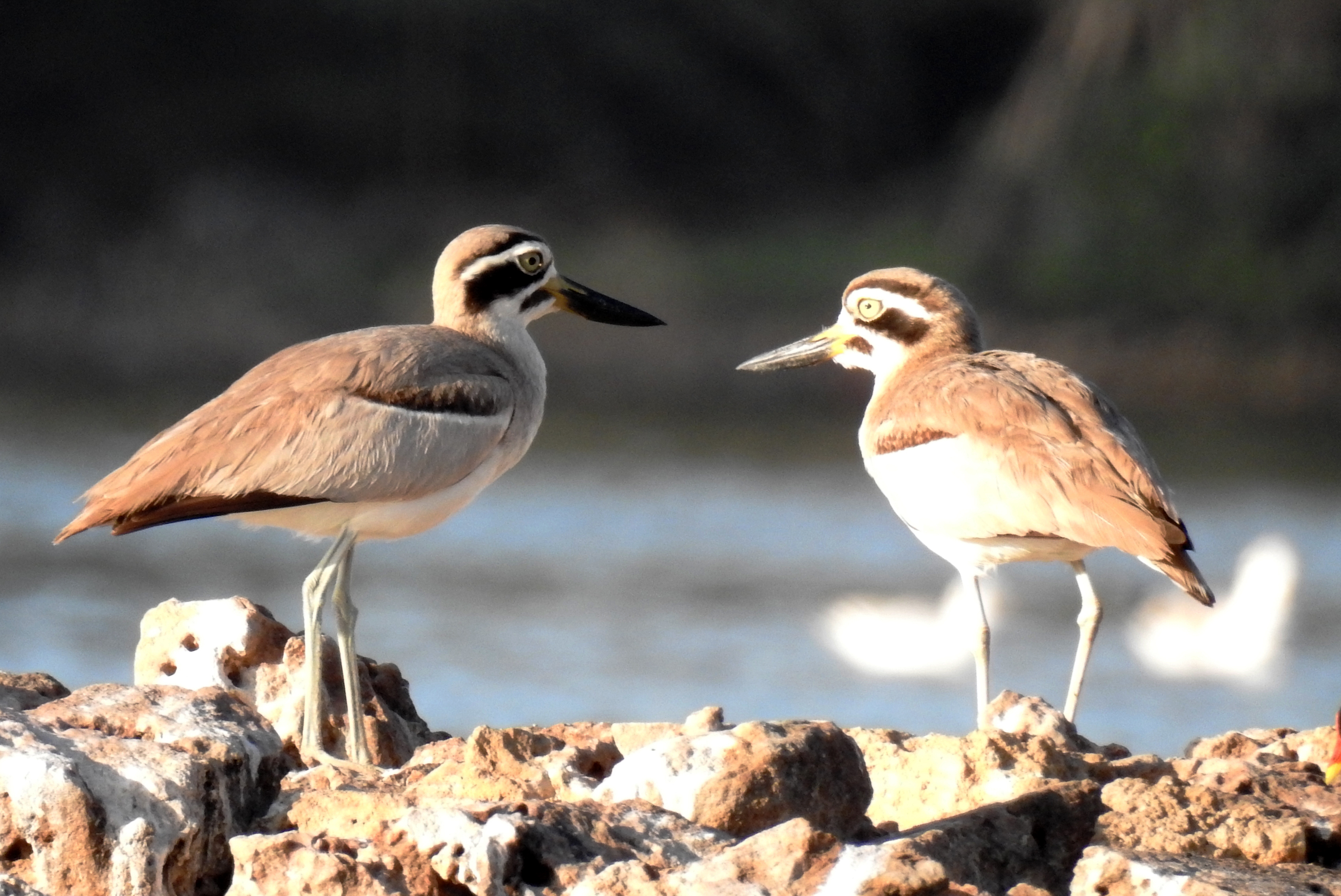 Great Stone-curlew or Great Thick-knee Esacus recurvirostris. Photo by Dr. Raju Kasambe taken at Porbandar, Gujarat.